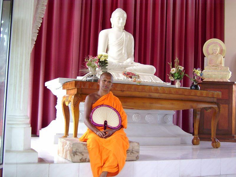 college shrine inside